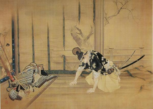 Satō Tadanobu